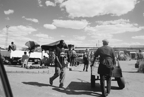 Mbare Bus Terminus